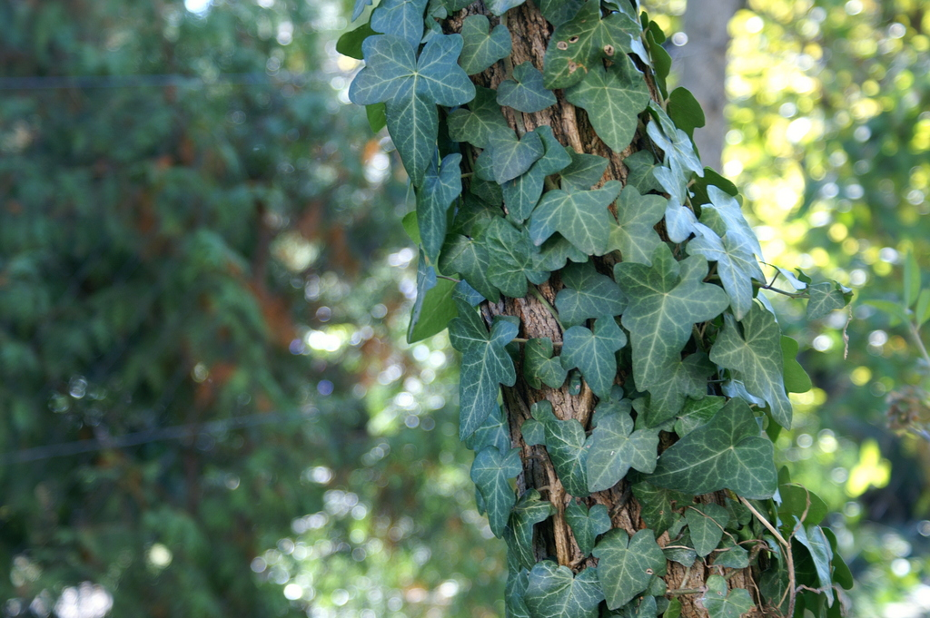 Hedera helix clinging to an Acacia